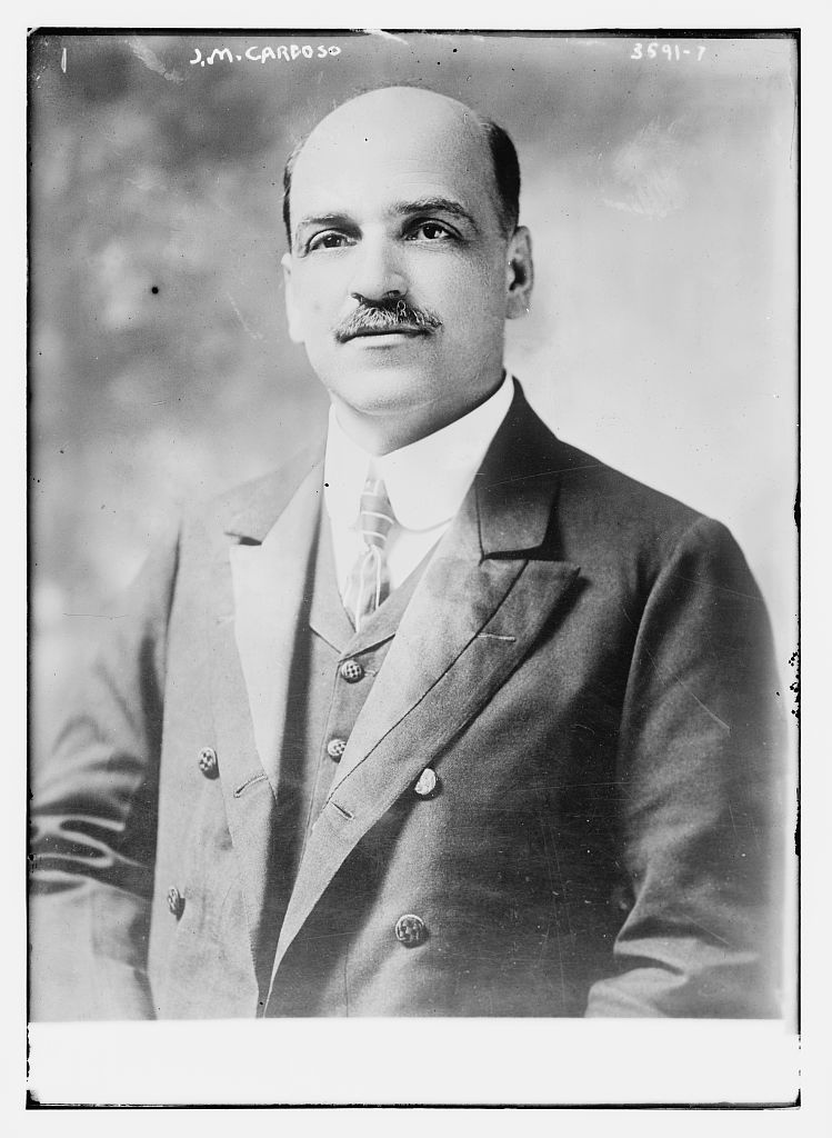 José Manuel Cardoso circa 1915